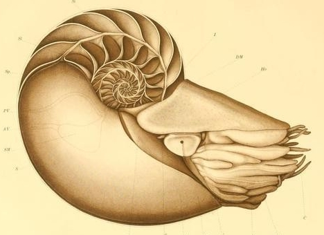 Schematic illustration of Nautilus pompilius Linnaeus, 1758 from The anatomy of Nautilus pompilius (Series: Memoirs of the National Academy of Sciences vol. 8, 5th memoir., Washington,Govt. print. off.,1900).